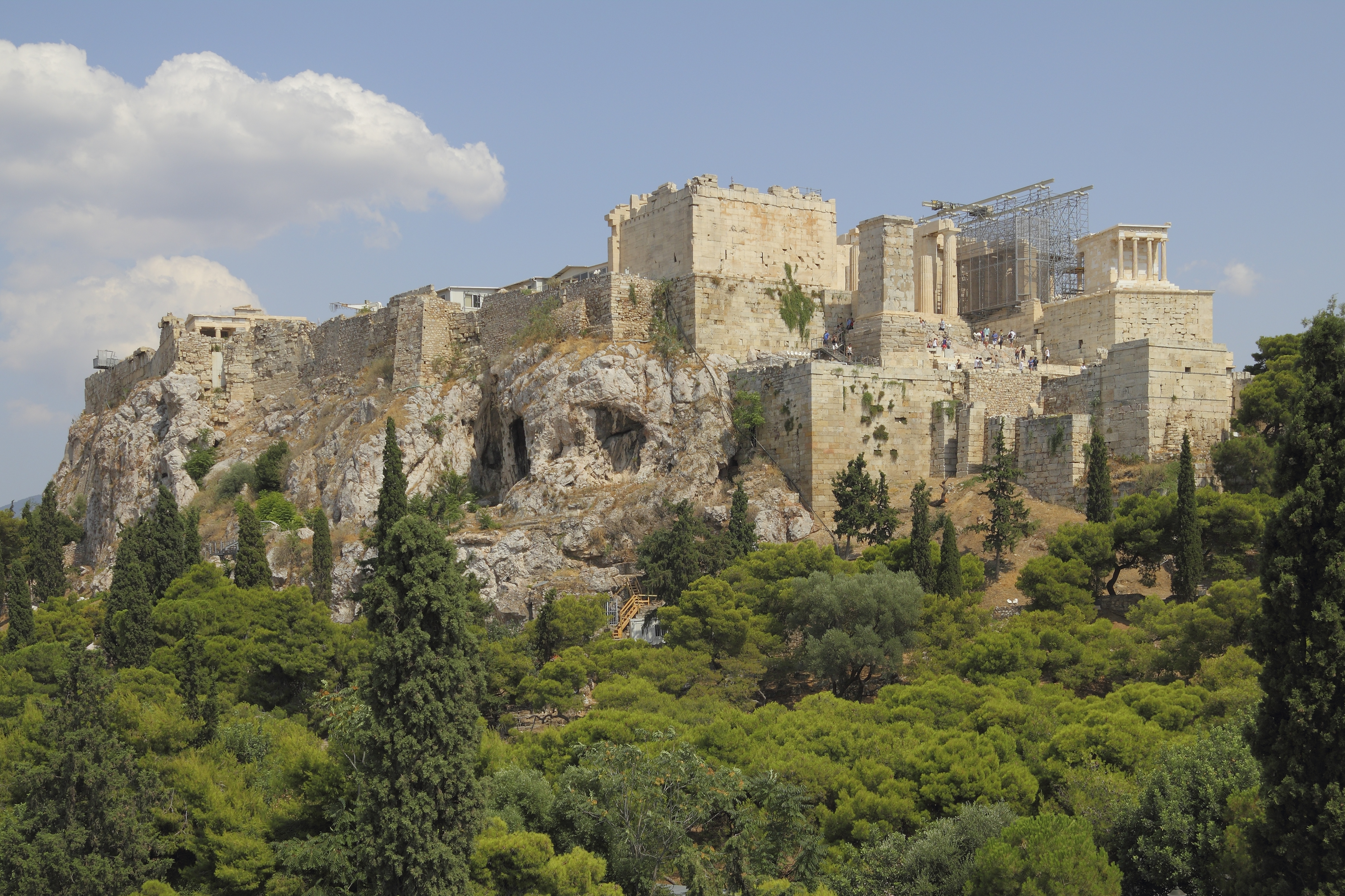 The Acropolis of Athens (Attica, Greece)